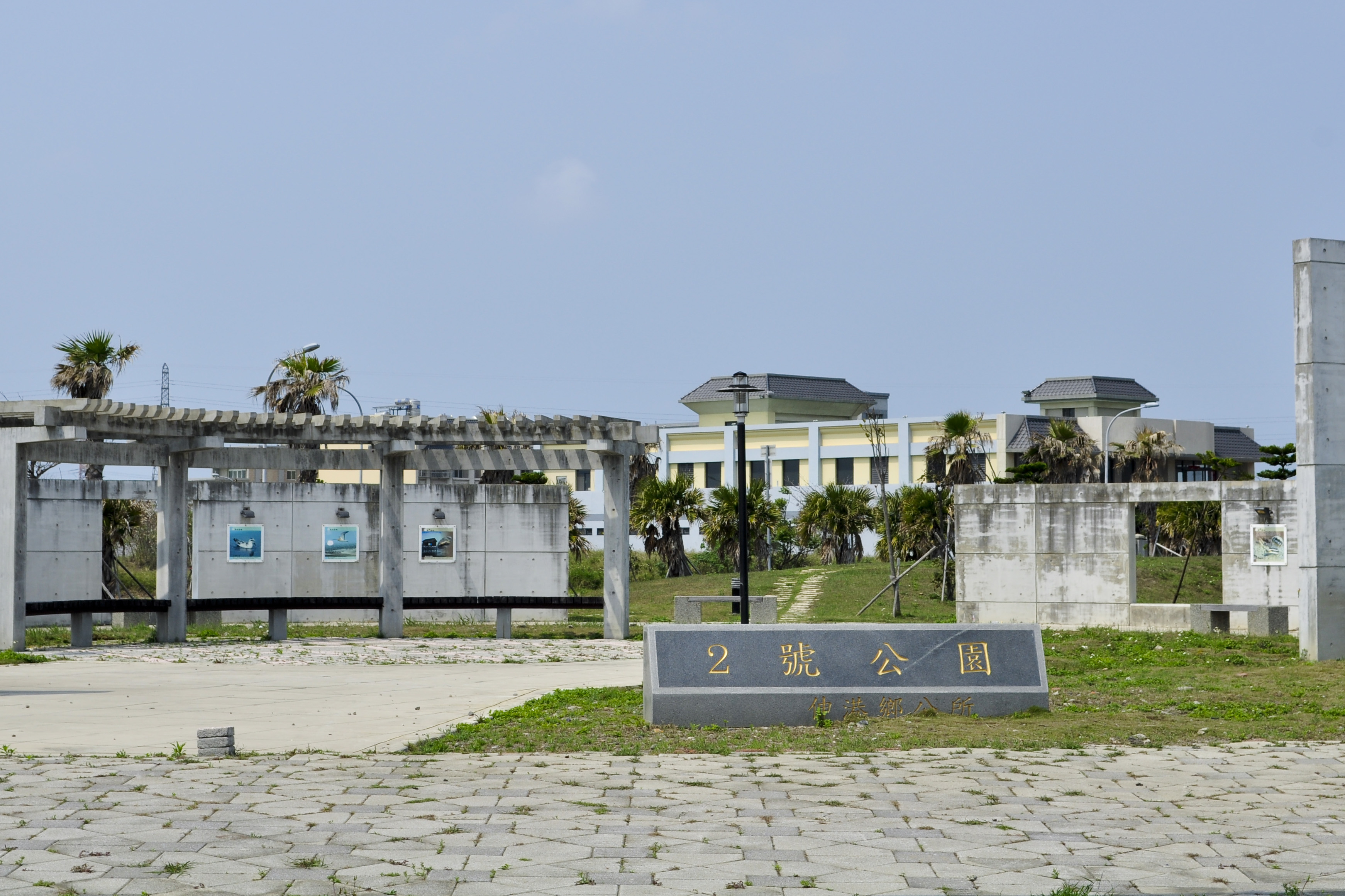 NO.2 Park